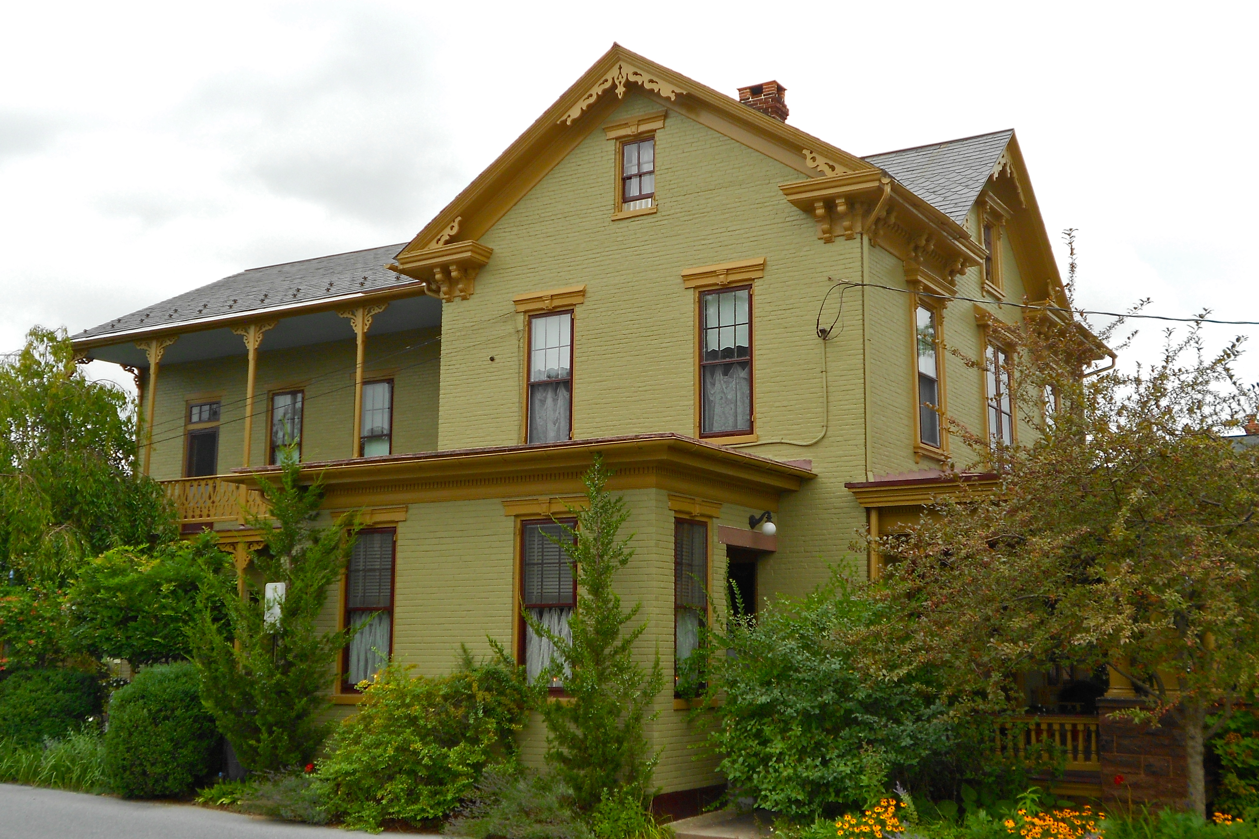 Enoch Matlack House, listed on the NRHP on June 22, 1979, at 250 East Main Street, Hummelstown, Dauphin County, Pennsylvania.